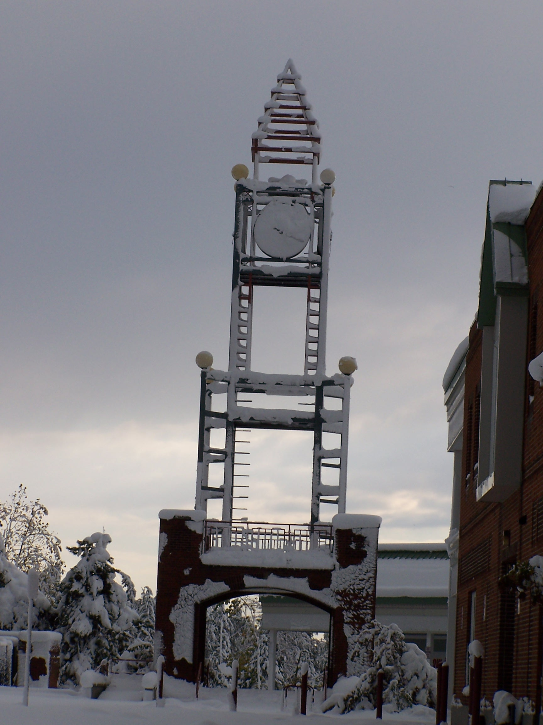 This is a photo of the local "Big Ben" in the Commons of SUNY University at Buffalo's North Campus.